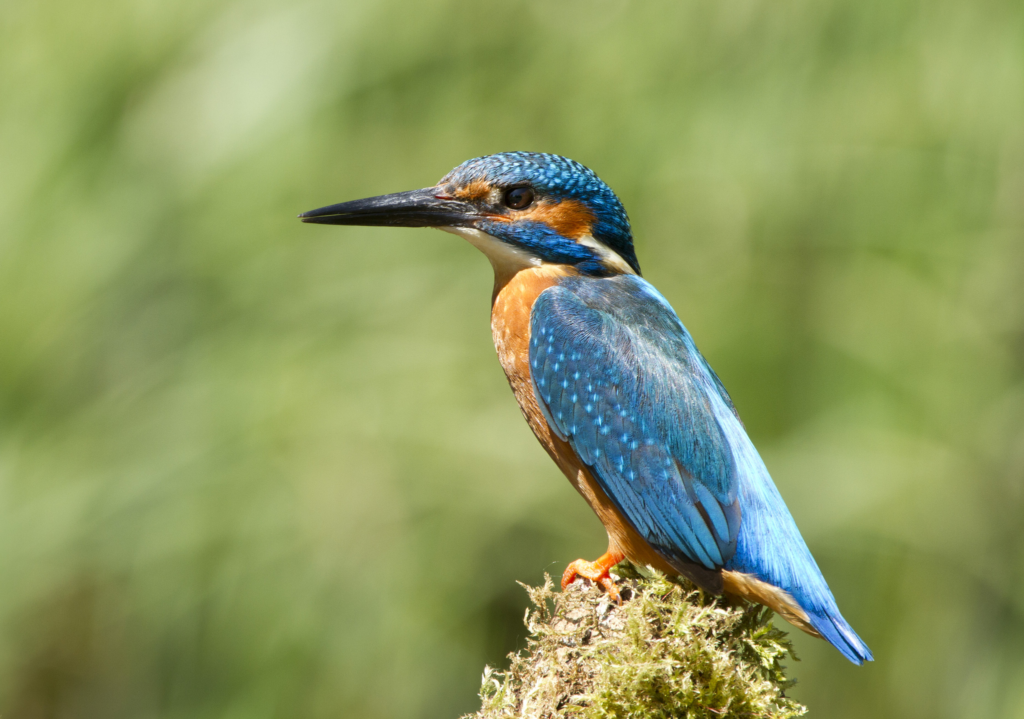 A Common Kingfisher in England.